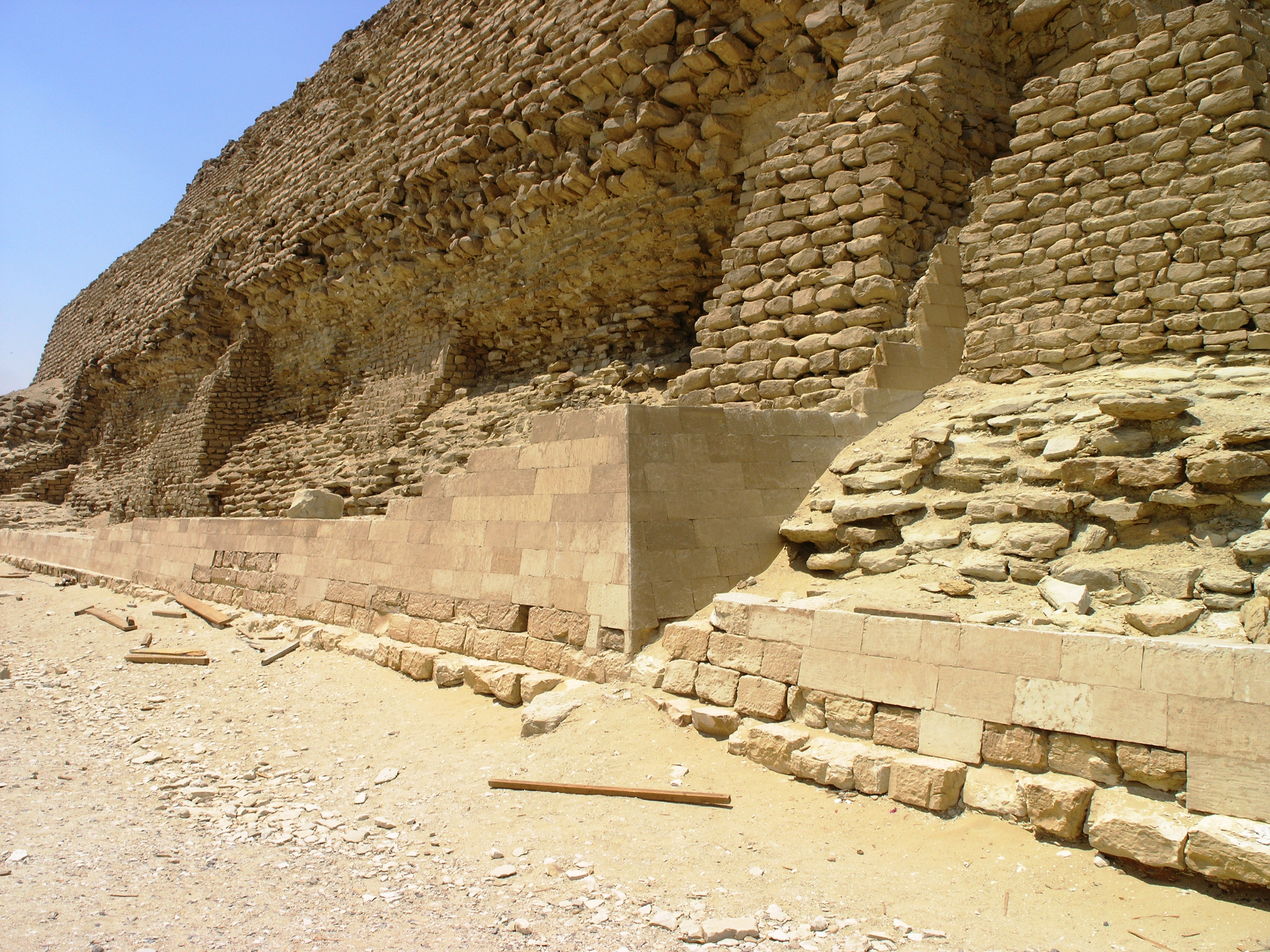 Saqqara - Pyramid of Djoser - oblique view of partially restored wall